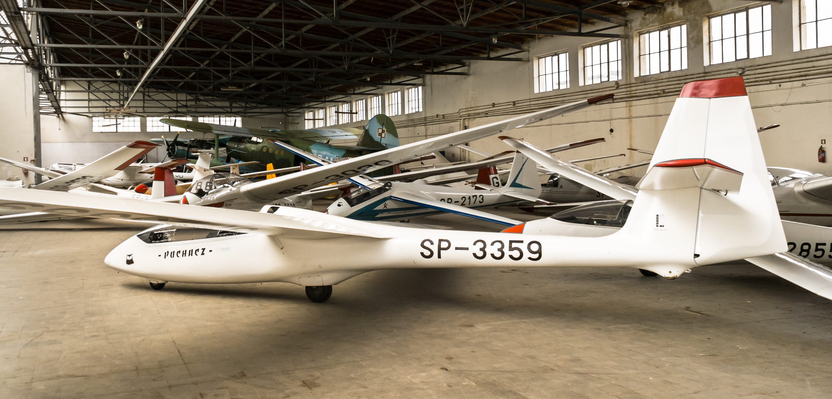 The SZD-50 Puchacz (Polish: "Eagle Owl"), a Polish two-place training and aerobatic sailplane at Krosno Airport, Poland.